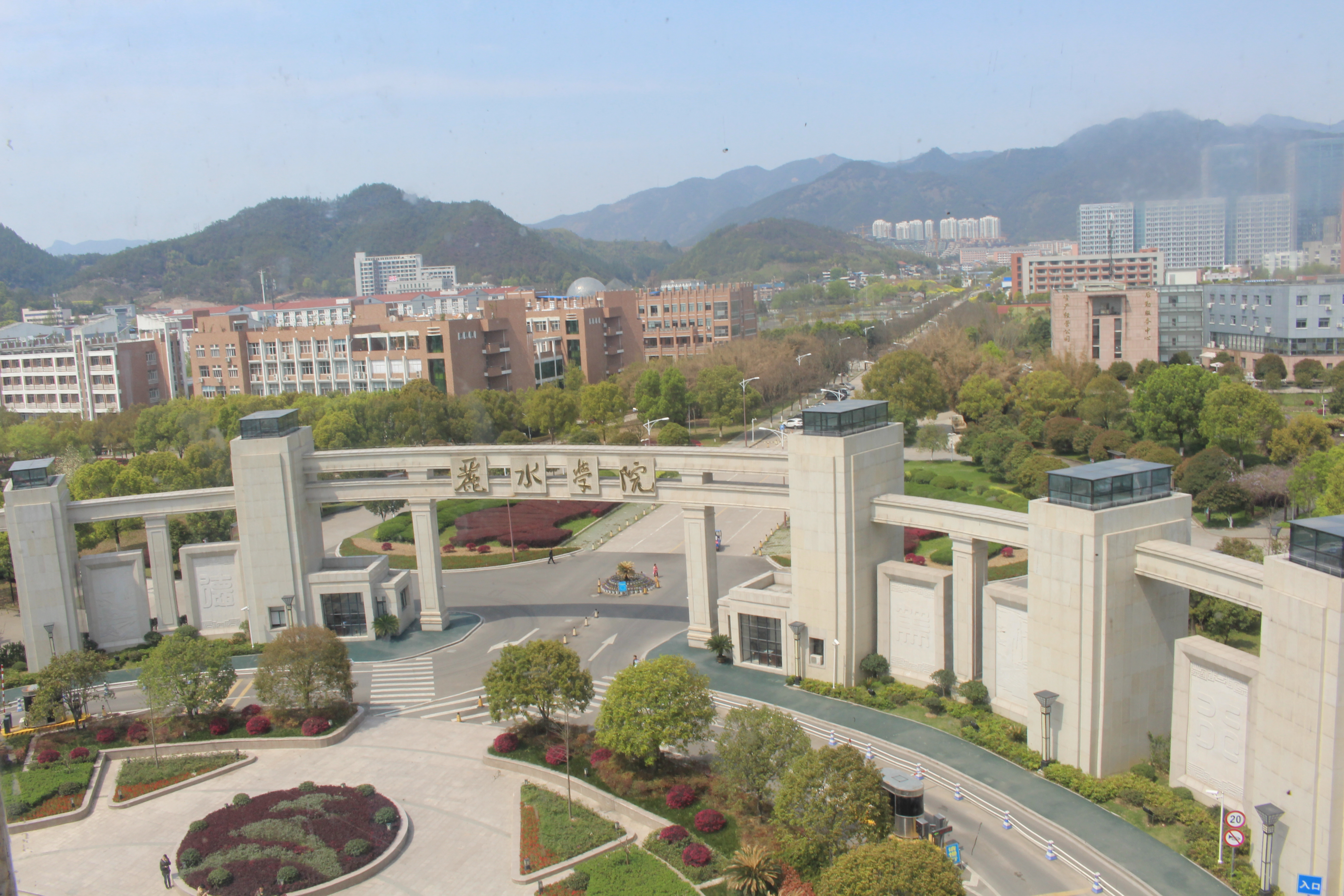 The school gate of Lishui University in Lishui, Zhejiang, China.